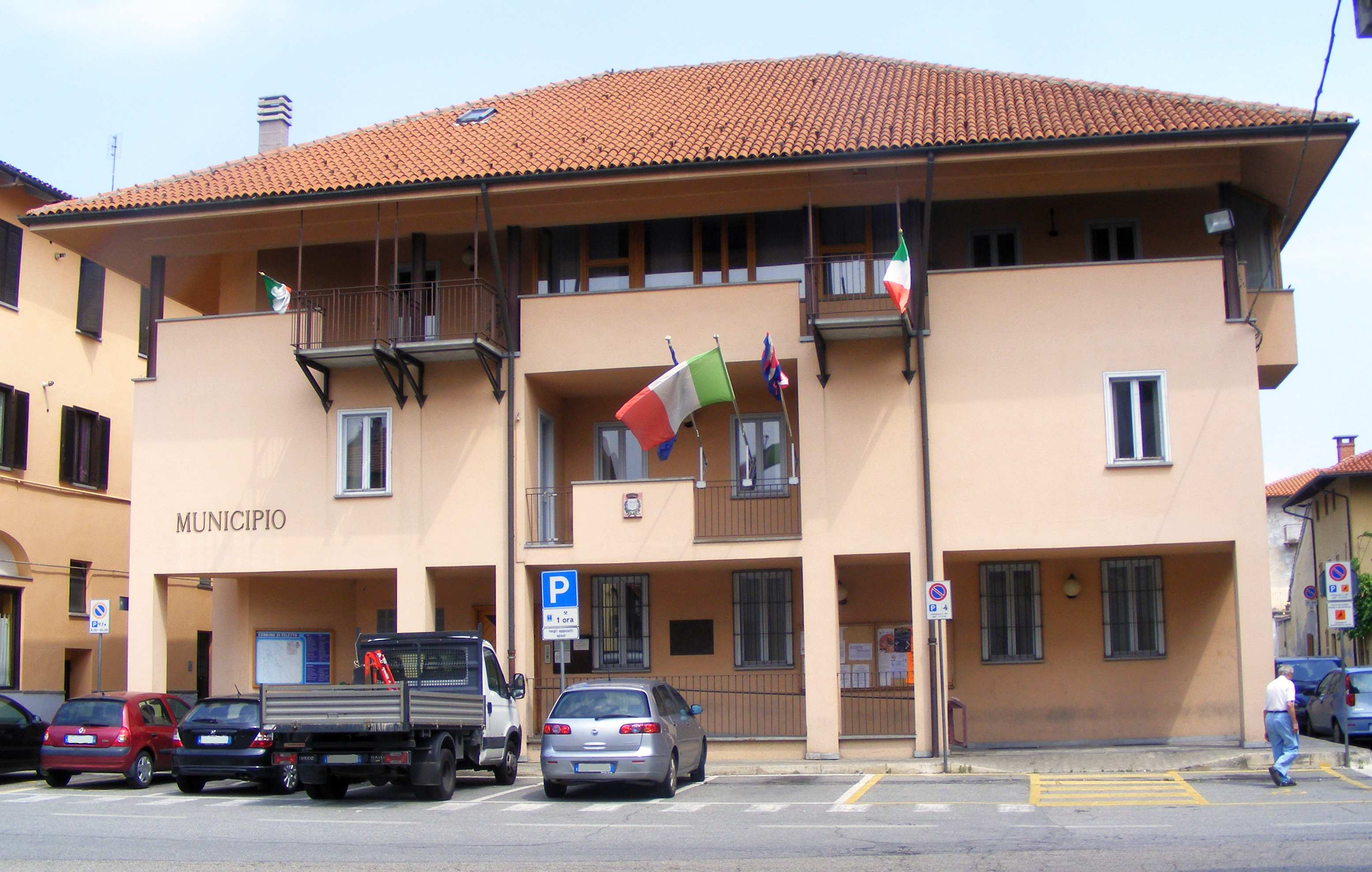 Feletto (TO, Italy): town hall